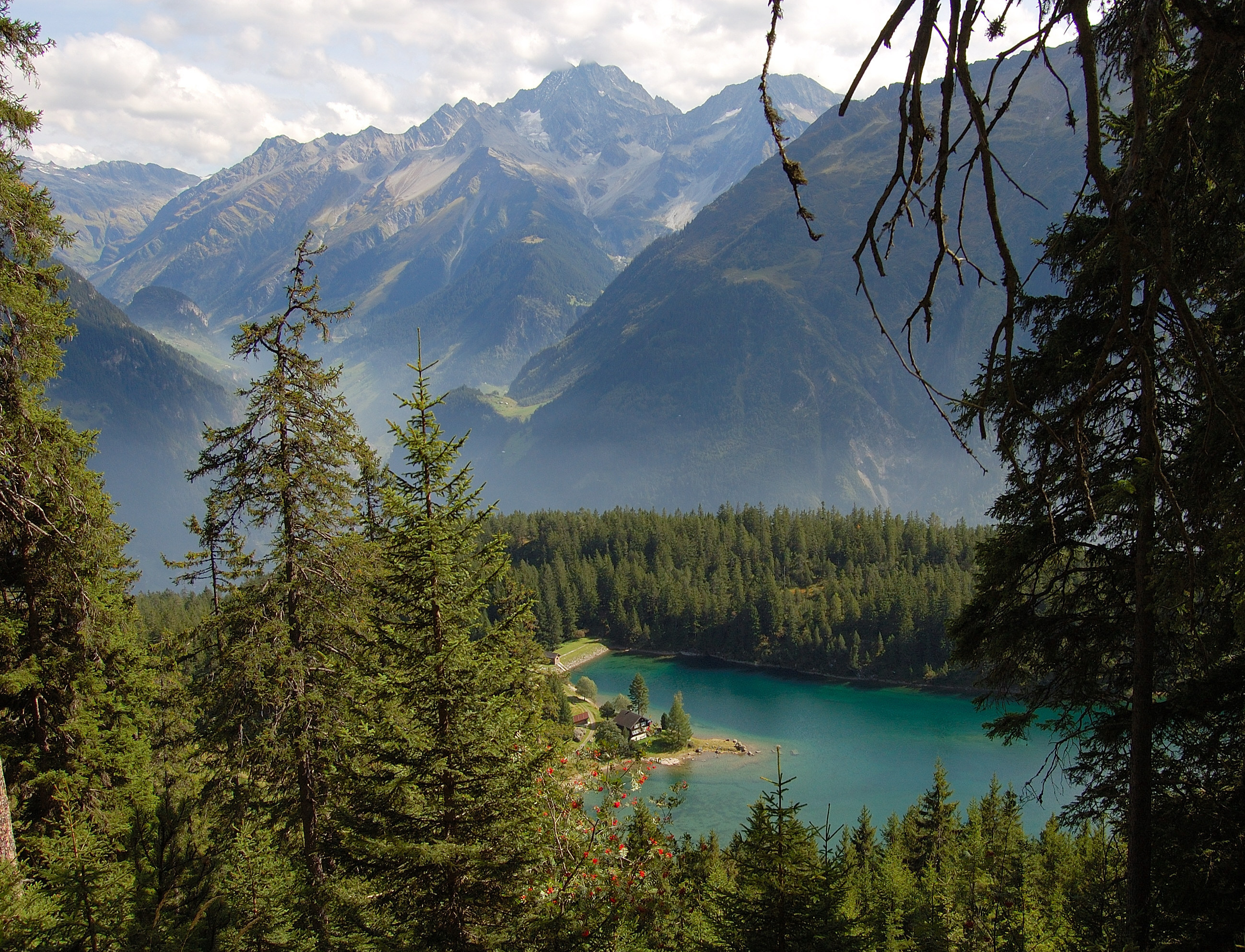 The Arnisee lake in the canton of Uri/Switzerland